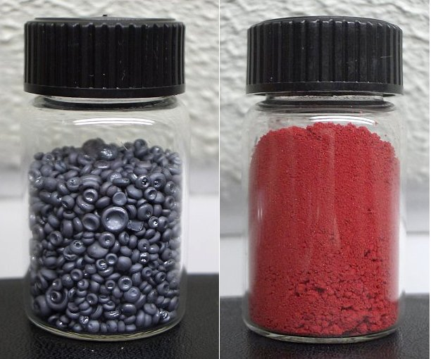 Black, glassy amorphous (with thin layer of grey selenium) and red amorphous selenium